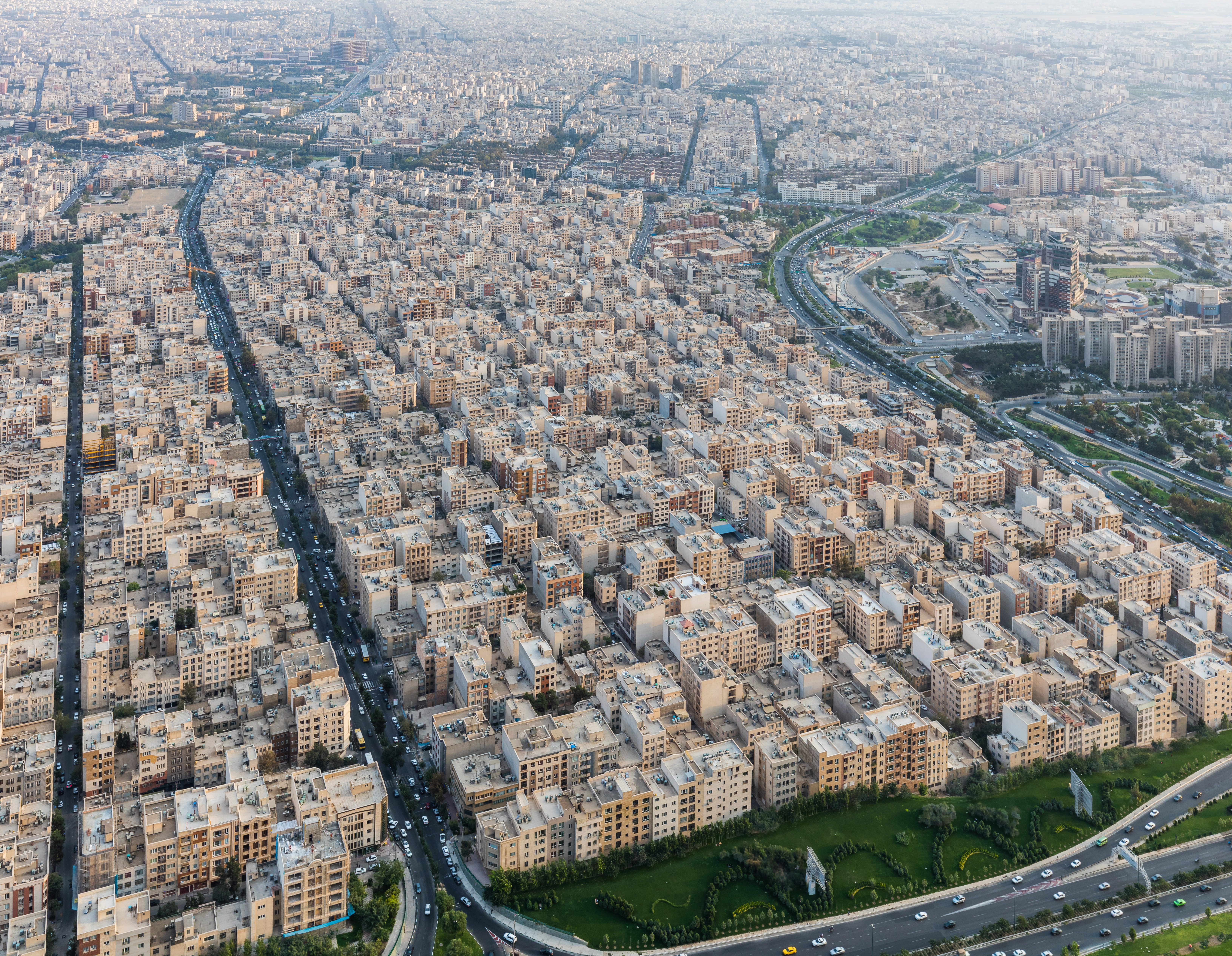 View of Tehran from Milad Tower, Iran